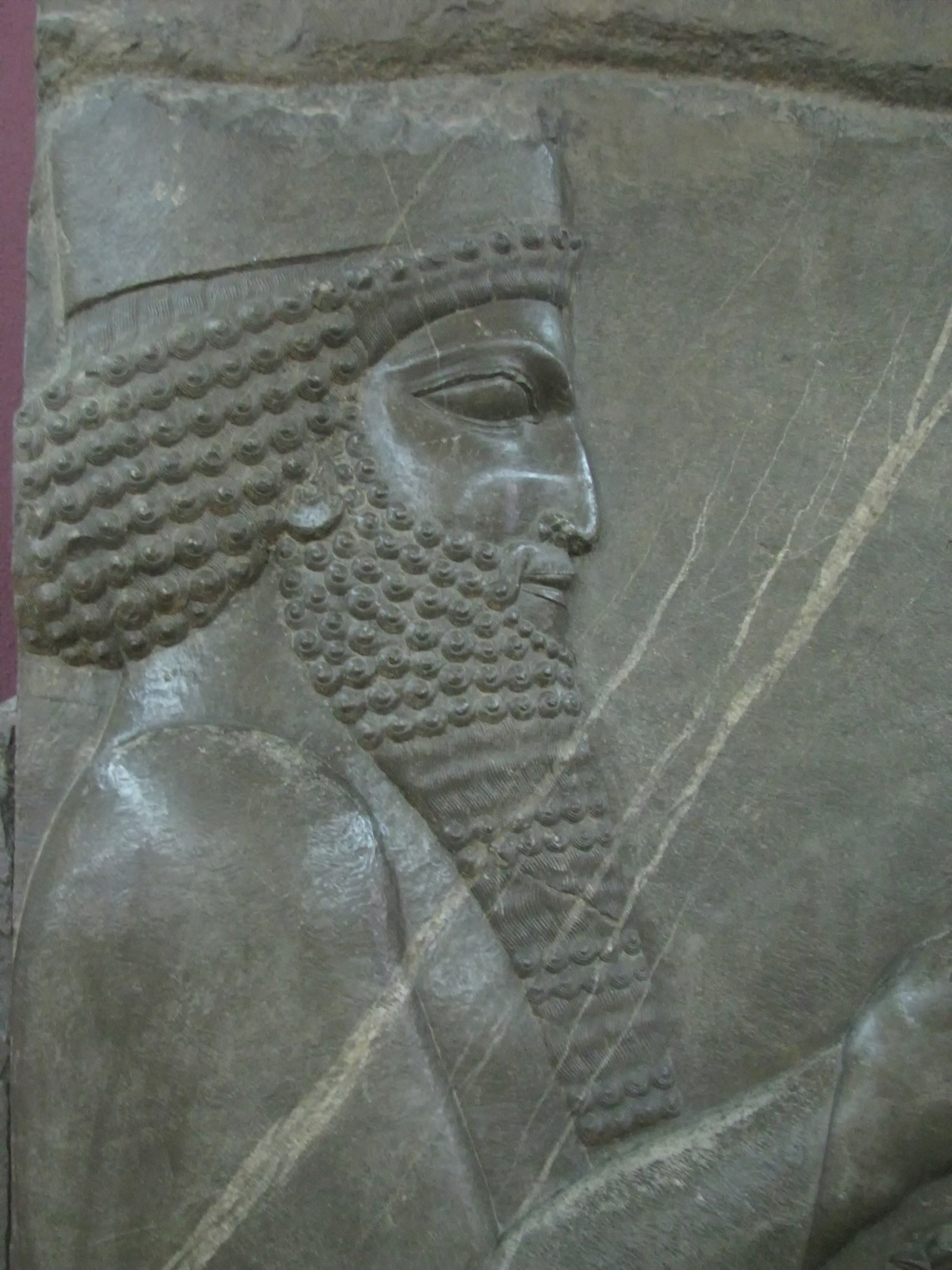 The Treasury Relief, Tehran Museum. The king (probably Xerxes, but possibly Darius), seated. See "Xerxes: A Persian Life."